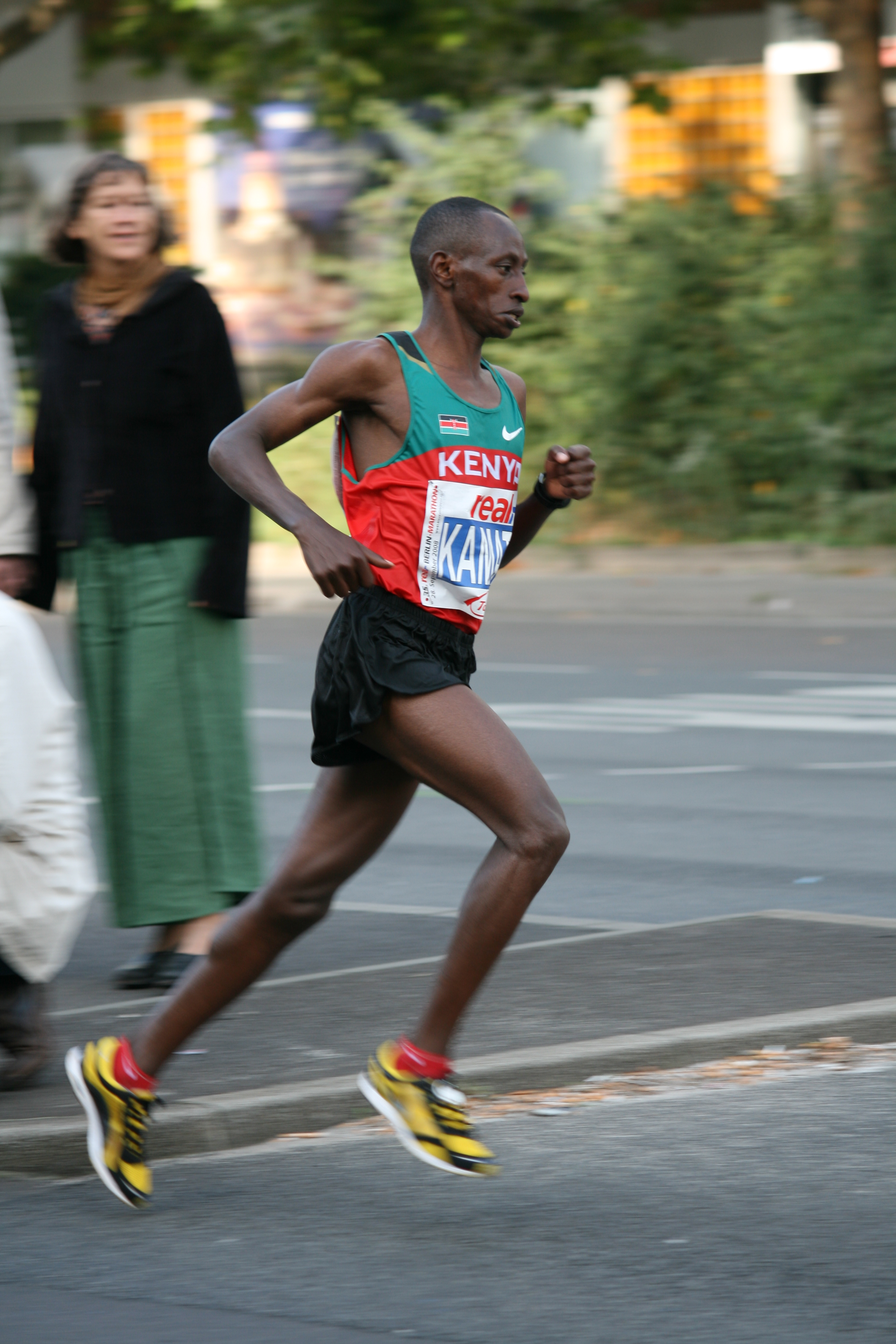 Charles Kamathi, Kenyan long-distance runner, at the Berlin-Marathon 2008